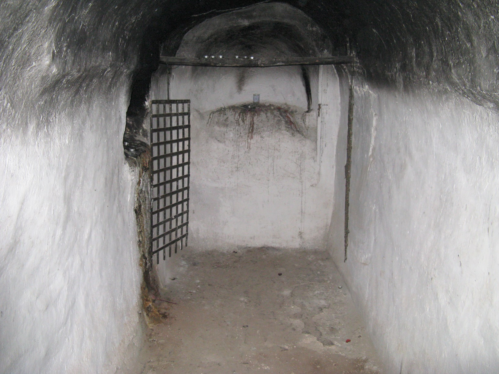 Aaron's supposed final resting place under the 14th century shrine on Jabal Hārūn in Petra, Jordan.